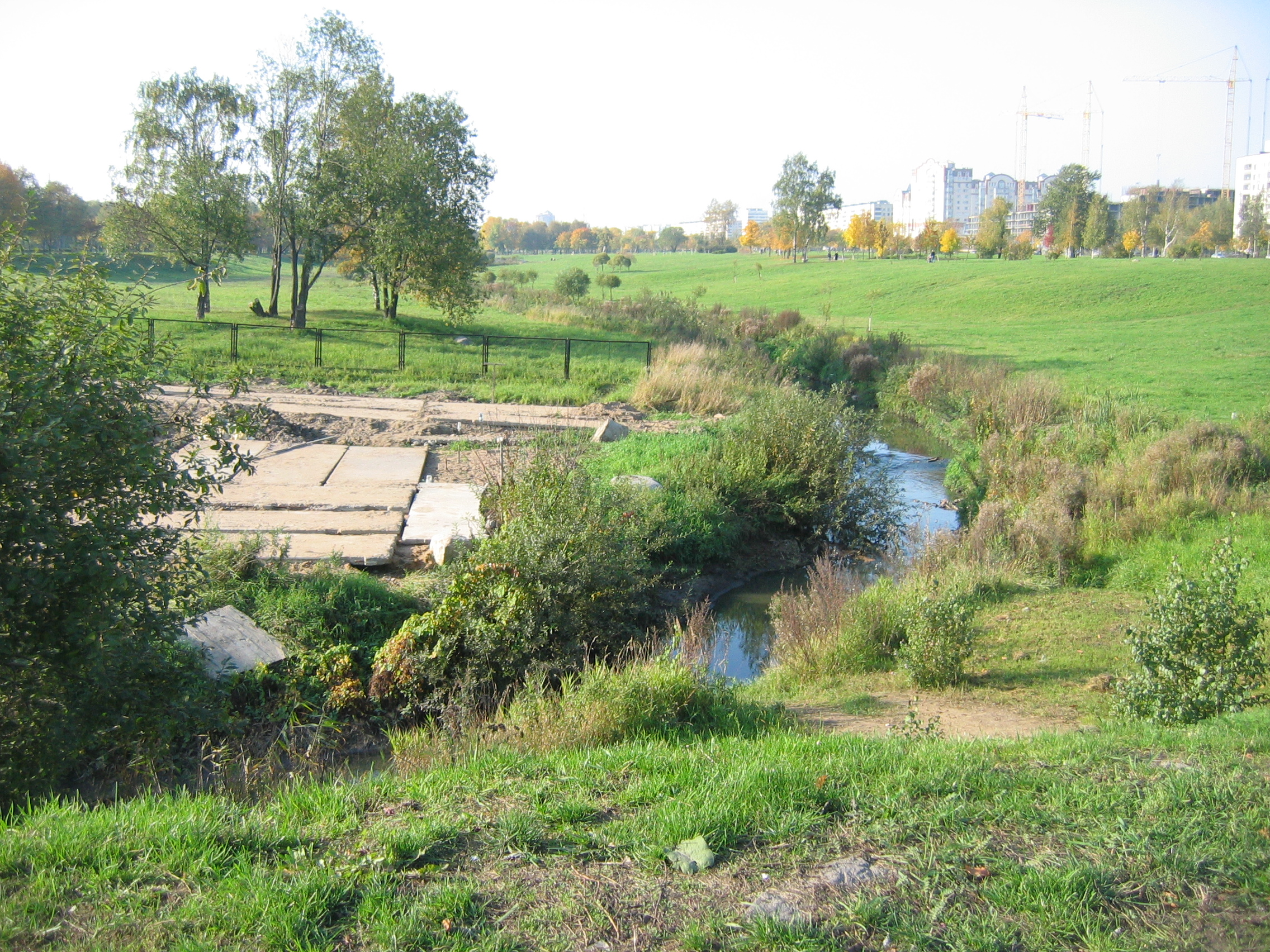 Myrinskyi rychei